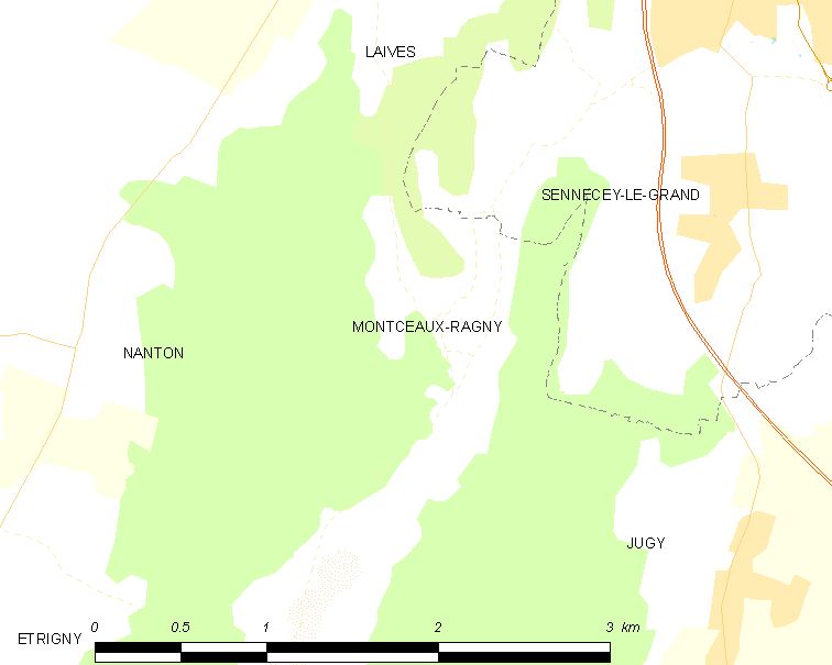 Map of French municipality